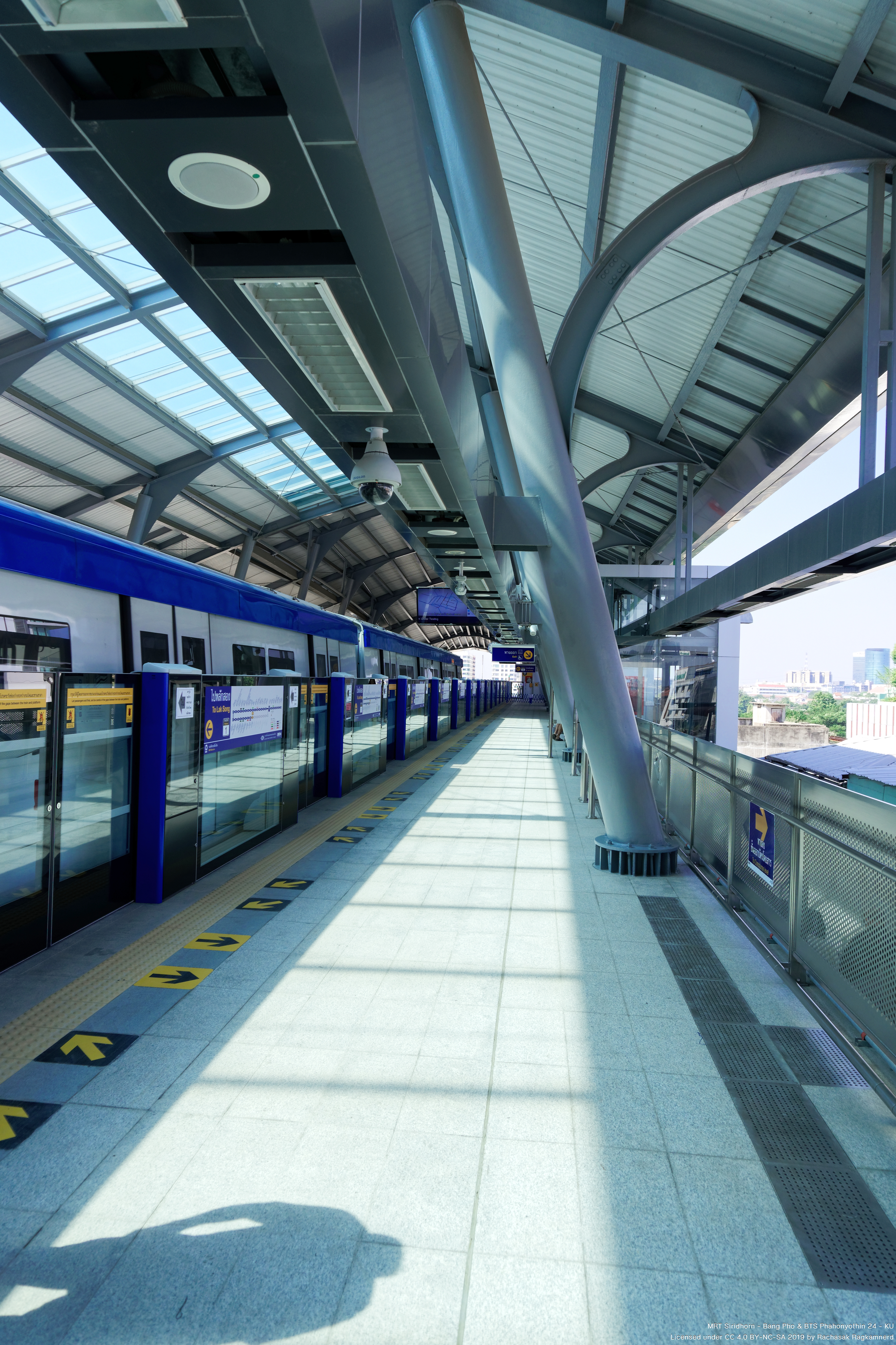 MRT Bang Pho - Platform - Tao Poon side